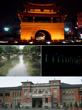 Montage of various Hsinchu images